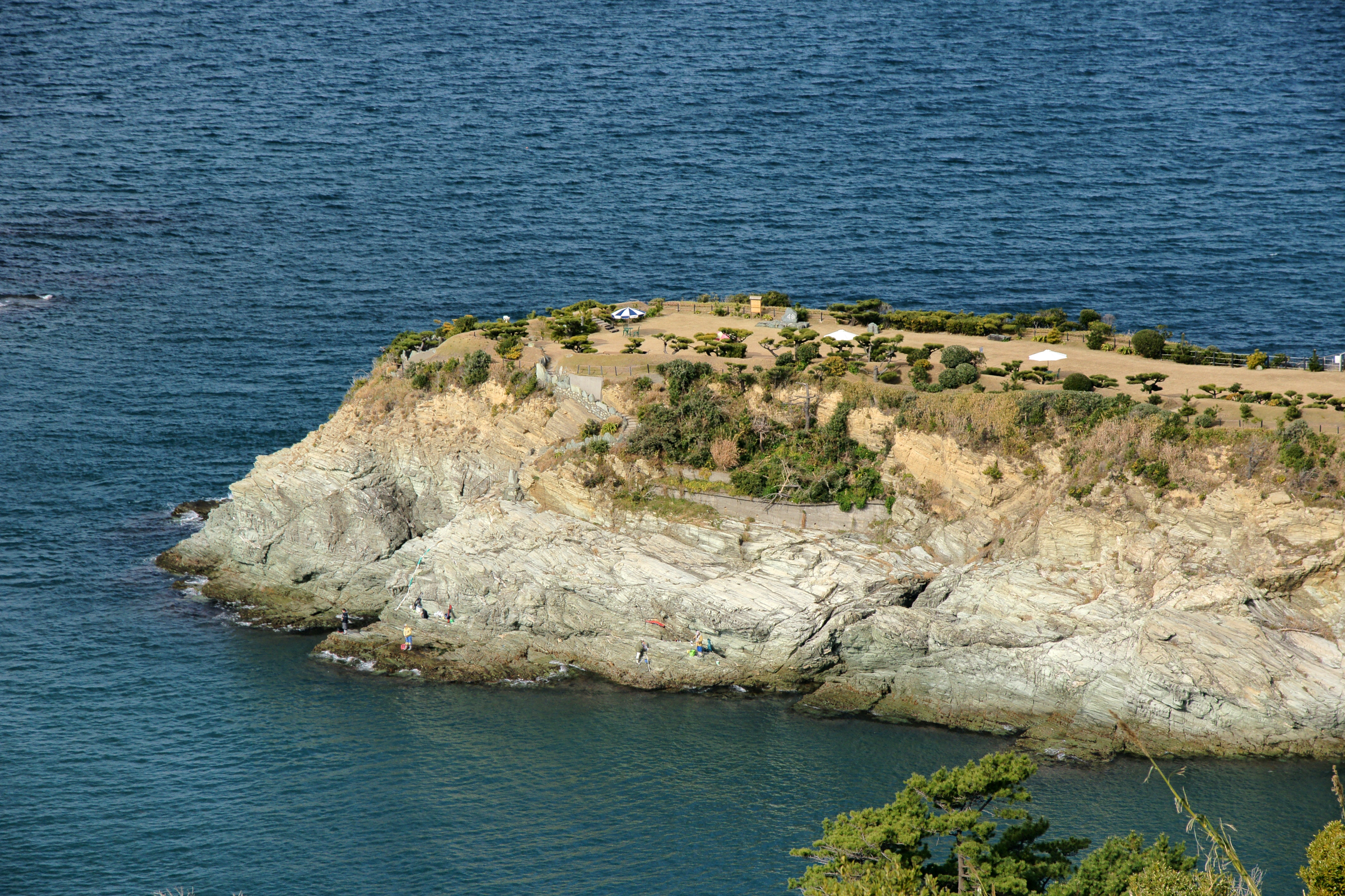 Bandoko Garden, Wakayama, Wakayama prefecture, Japan